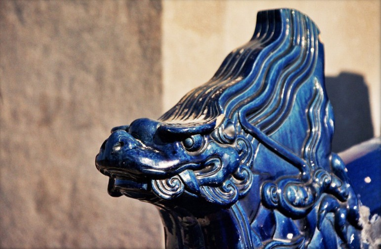 Dragon Sculpture on building, Temple of Heaven